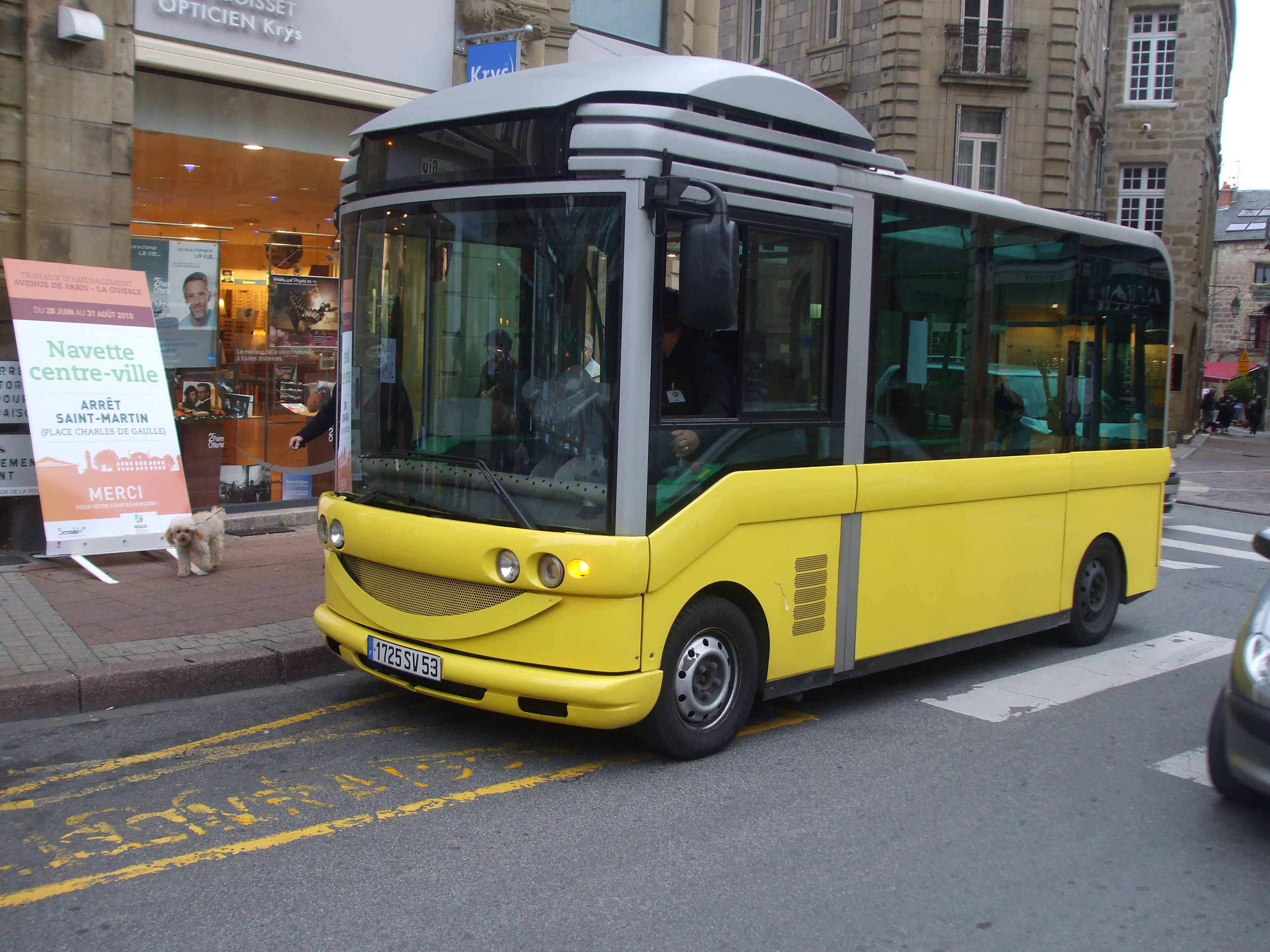 Minibus Gruau Microbus, Libéo transit network shuttle, Brive-la-Gaillarde, France